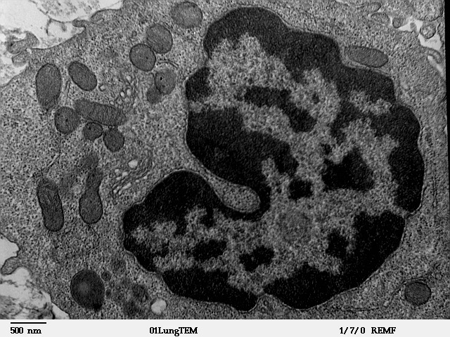 Transmission electron microscope image of a thin section cut through an area of mammalian lung tissue. Image is a macrophage in the alveolus, showing the nucleus and cytoplasmic organelles, such as golgi and mitochondria. JEOL 100CX TEM